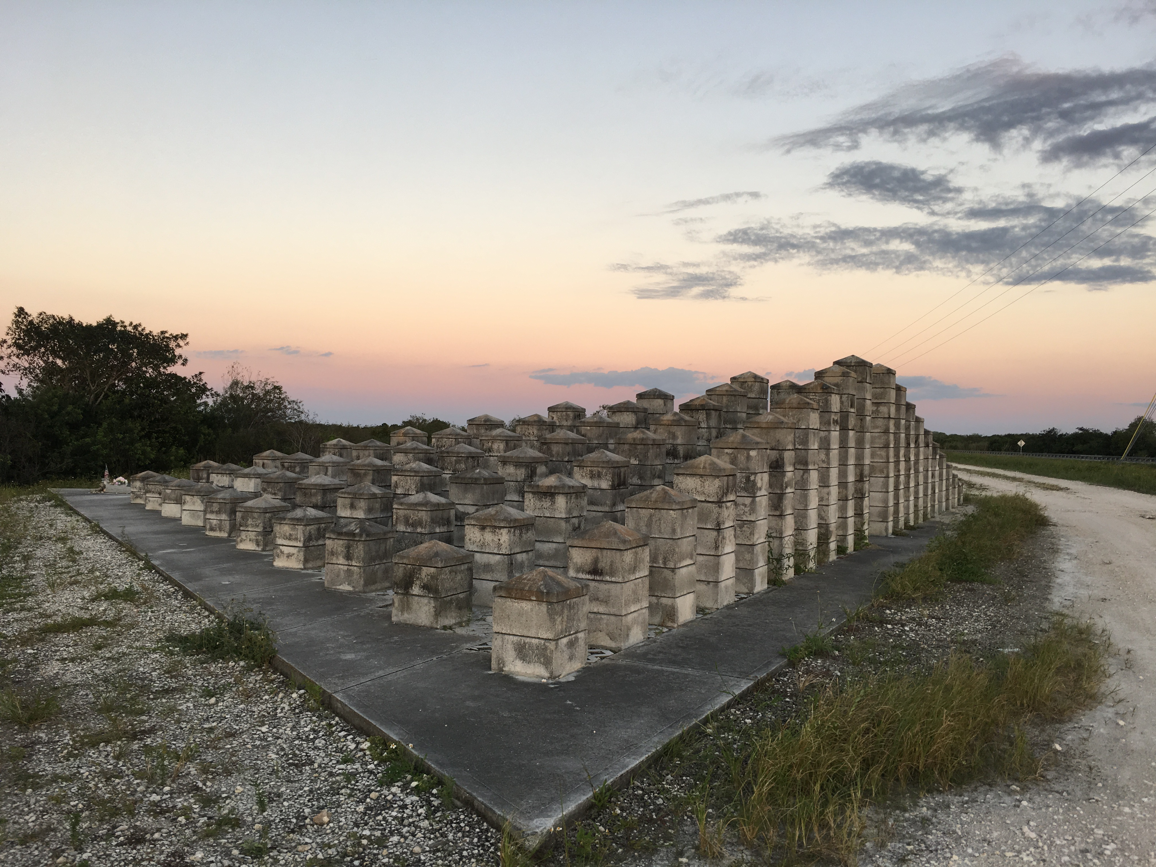 A view of the memorial looking toward the East